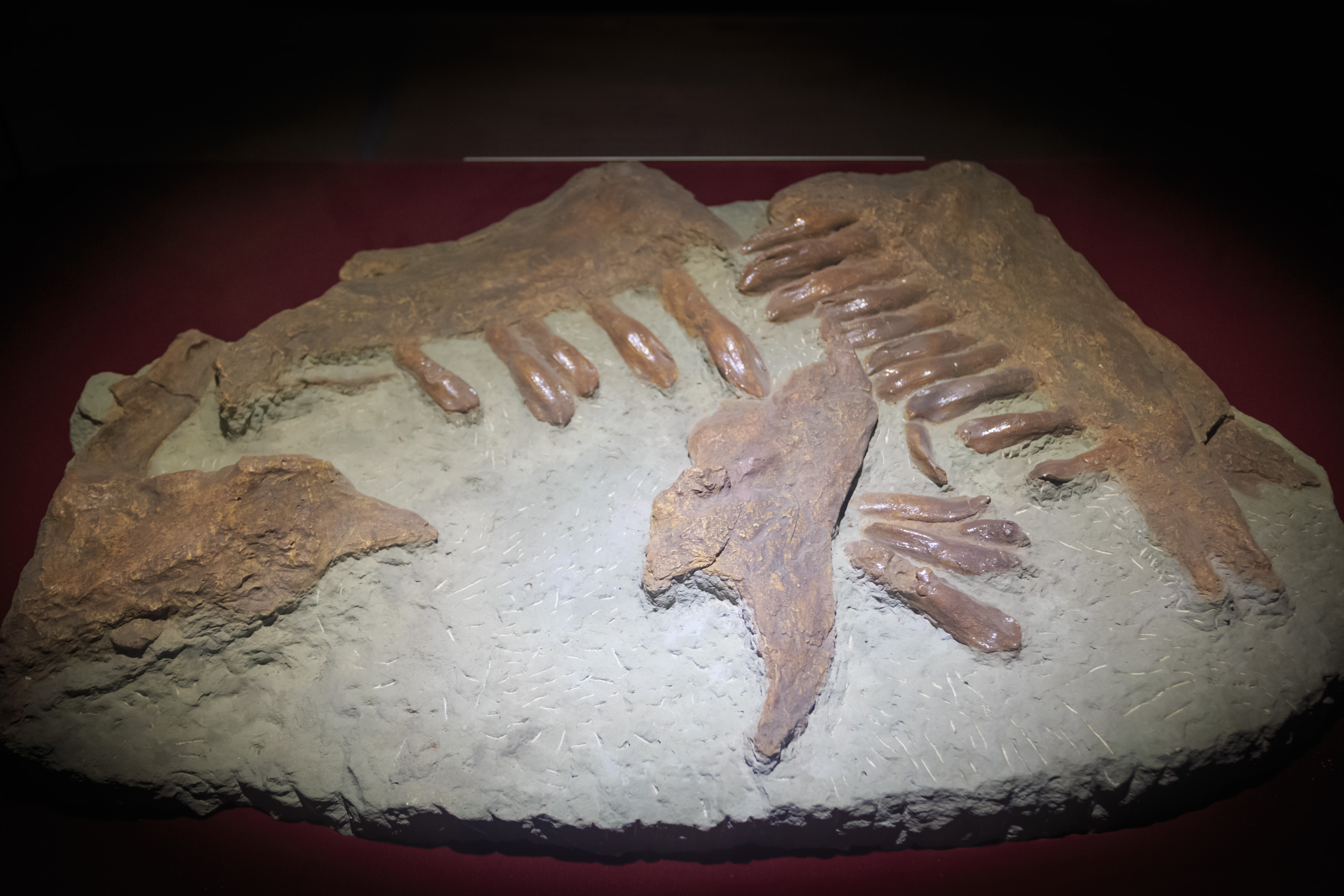 Lower jaws of Datousaurus bashanensis. Symtemtic position: Cetiosauridae, Sauropodomorpha, Saurischia. Locality: Dashanpu, Zigong, Sichuan, China. Age: Middle Jurassic (about 160 million years ago). Datousaurus bashanensis is a medium-sized sauropod dinosaur. Its skull is large and heavity constituted with large spoon-like teeth. Here are relatively complete lower jaws of datousaurus bashanensis so far unearthed.